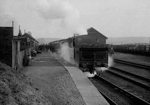 North Staffordshire Railway locomotive no. 12, a Sharp Stewart 2-4-2T of class 9, about to leave Cheadle railway station